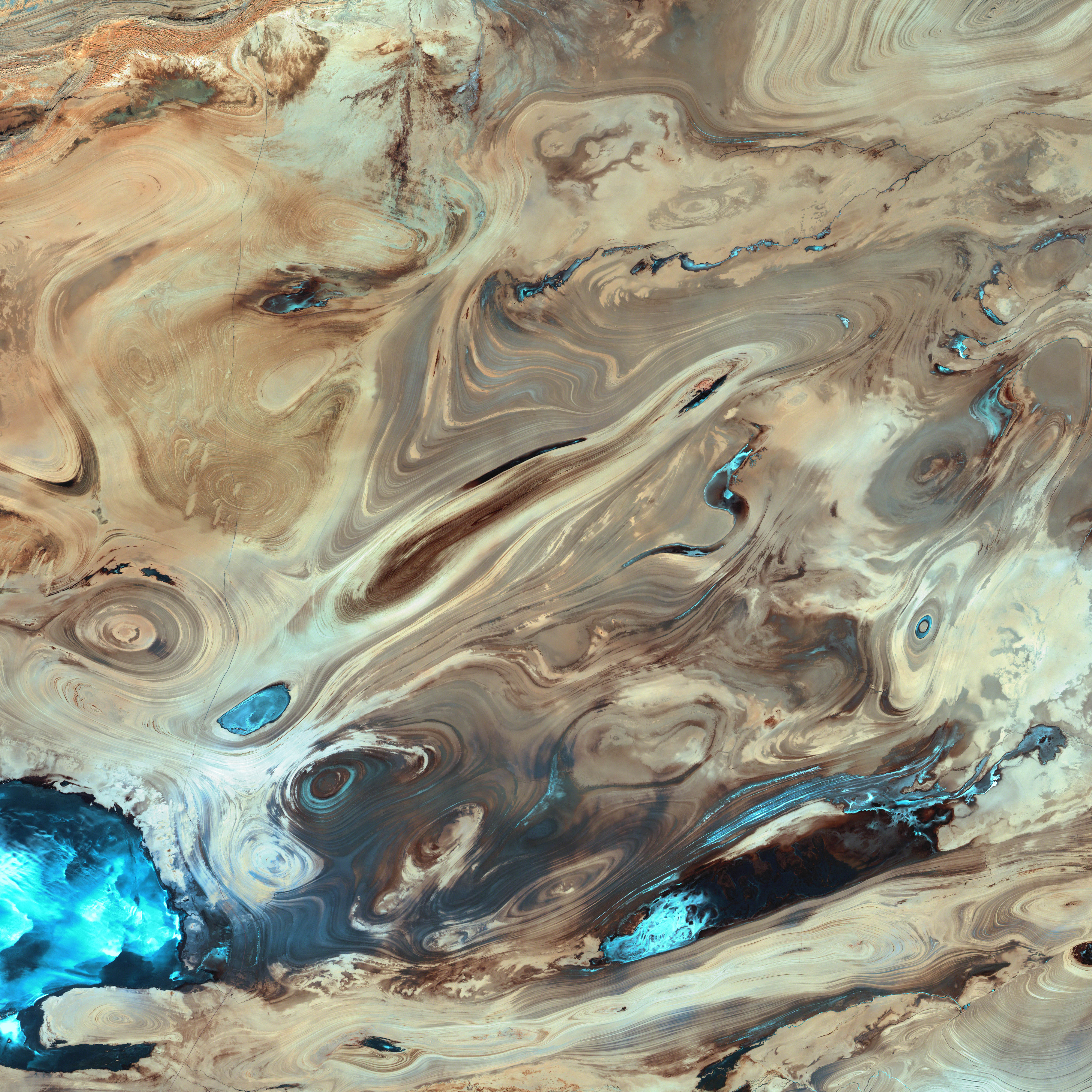 A satellite picture of the Dasht-e Kavir desert in Iran. The patterns you see are formed by different geological layers that have been eroded over thousands of years by wind and sometimes (but not often) rain. The patterns are formed from either horizontal geological layers cut through by topographic changes, or geological formations (folds, domes, etc) in relatively flat terrain. Most of the colours are due to chemical differences in the rocks, whilst the intense blue colours could be due to a range of materials, possibly salt deposits, possibly vegetation, depending on which area of the EM spectrum is represented by blue. I suspect (but don't know, the satellite bands to displayed colours are not mentioned) that the blue colours are salt deposits, but they could equally be other materials too. To be certain, knowledge of the bands to display colours is essential. The black line running horizontally across the image is a sensor drop-out and the data for that line or lines has been irrevocably lost. The linear (but not straight) line running vertically down the middle left is a road. USGS/NASA description: The Dasht-e Kevir, or Great Salt Desert, is the largest desert in Iran. It is primarily uninhabited wasteland, composed of mud and salt marshes covered with crusts of salt that protect the meager moisture from completely evaporating. This image was acquired by Landsat 7’s Enhanced Thematic Mapper plus (ETM+) sensor on October 24, 2000. This is a false-color composite image made using infrared, green, and red wavelengths. The image has also been sharpened using the sensor’s panchromatic band.